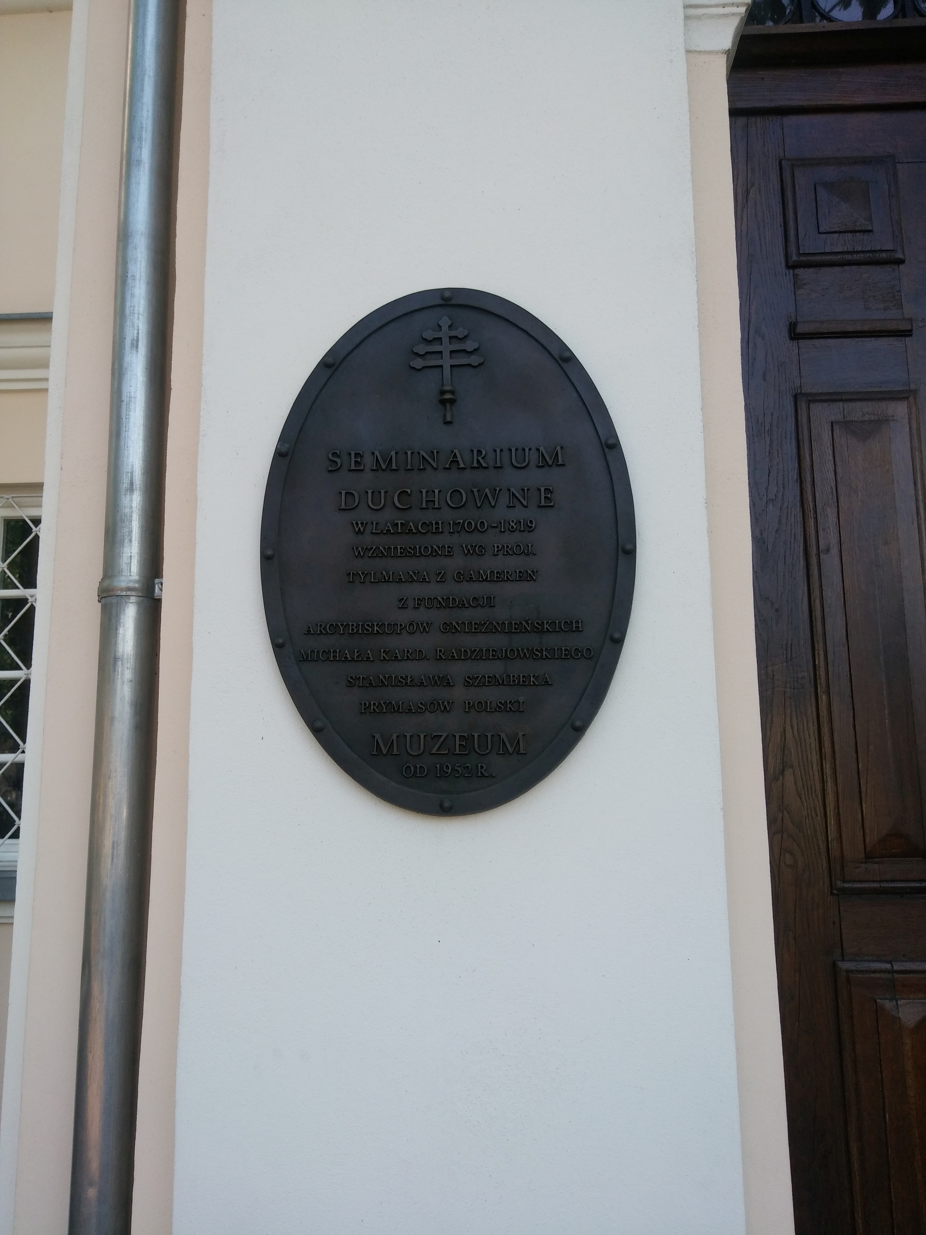 Plaque on Muzeum in Łowicz